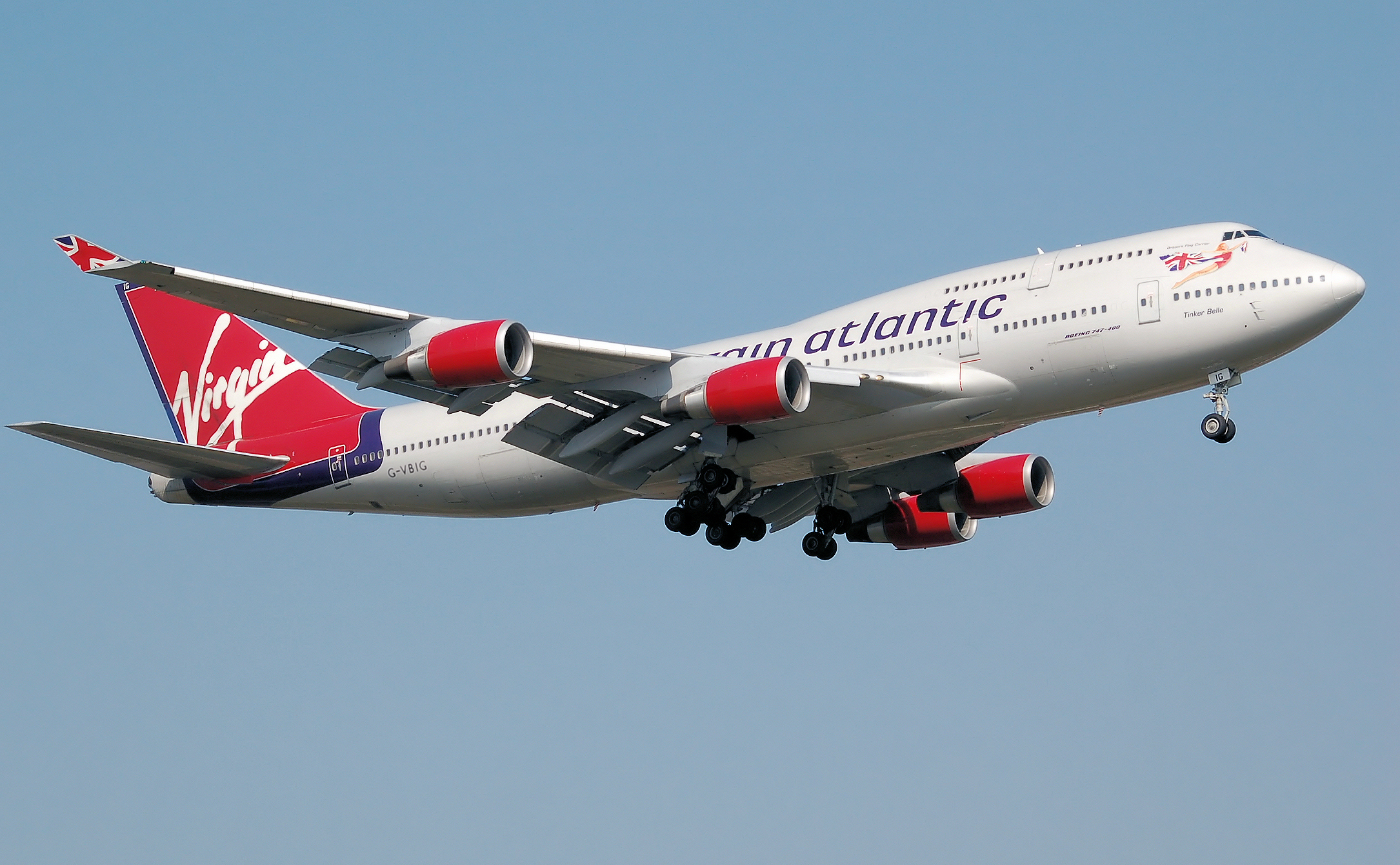 Virgin Atlantic Airways Boeing 747-400 (G-VBIG, "Tinker Belle") landing at London Heathrow Airport.